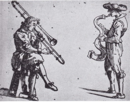 An etching from the series Figure con instrumenti musicali e boscarecci by Giovanni Battista Bracelli showing musicians playing a trombone (left) and a serpent cornett (right)